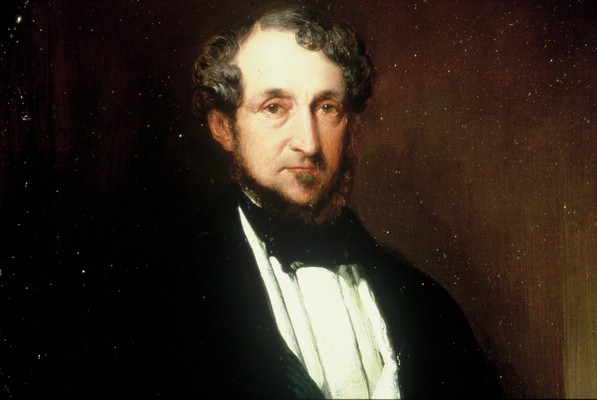 Thomas Egerton, 1st Earl of Wilton (1749-1814)